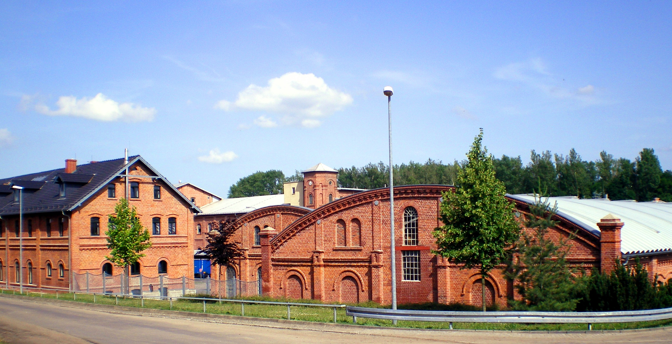 Sugar refinery in Rositz near Altenburg/Thuringia